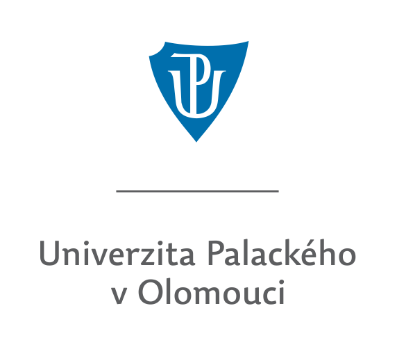 The official logo of Palacky University in Olomouc, Czech Republic. Czech language version.